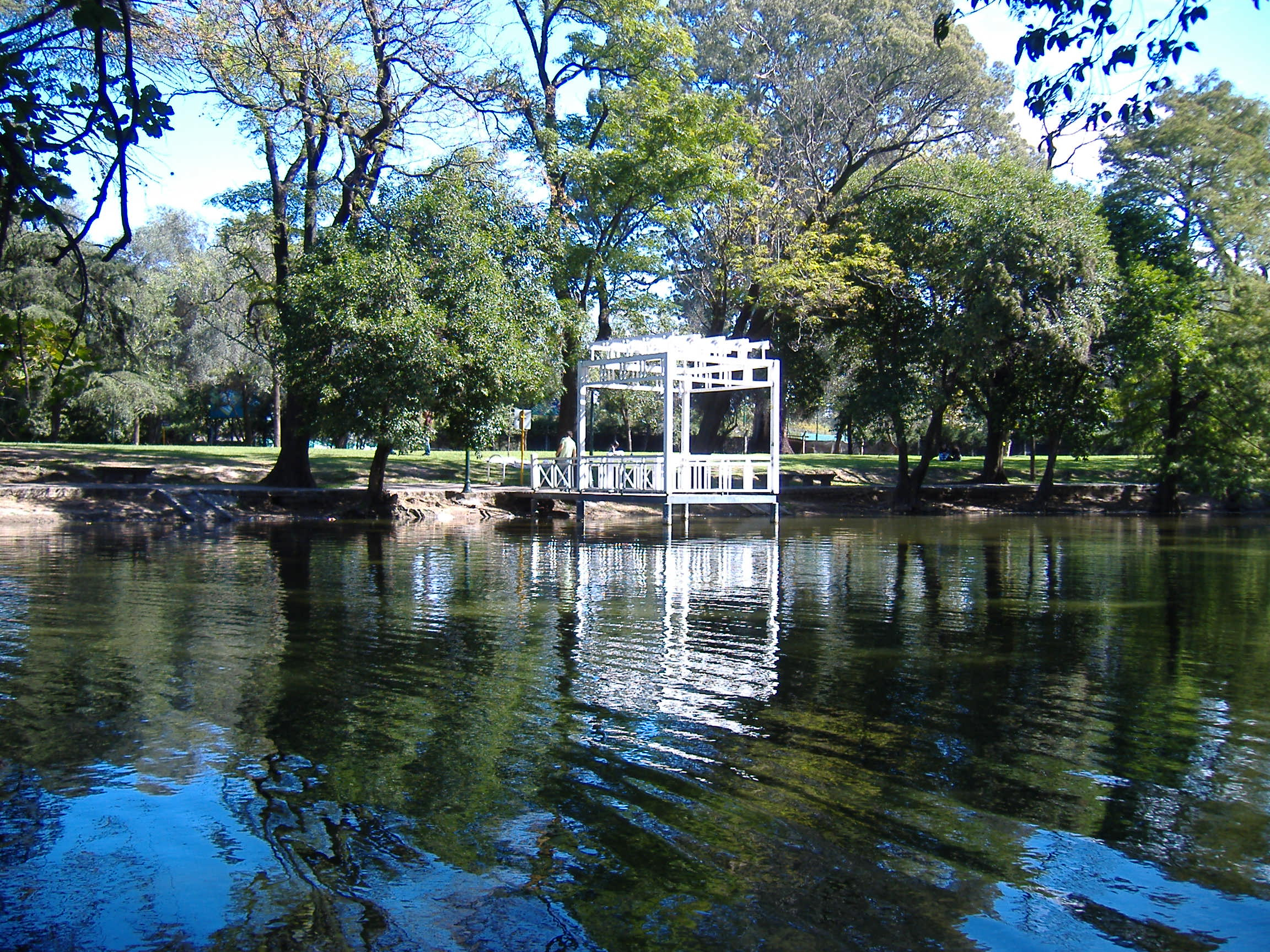 An artificial stream in Parque Sarmiento, a large urban park in the city of Córdoba, Argentina.